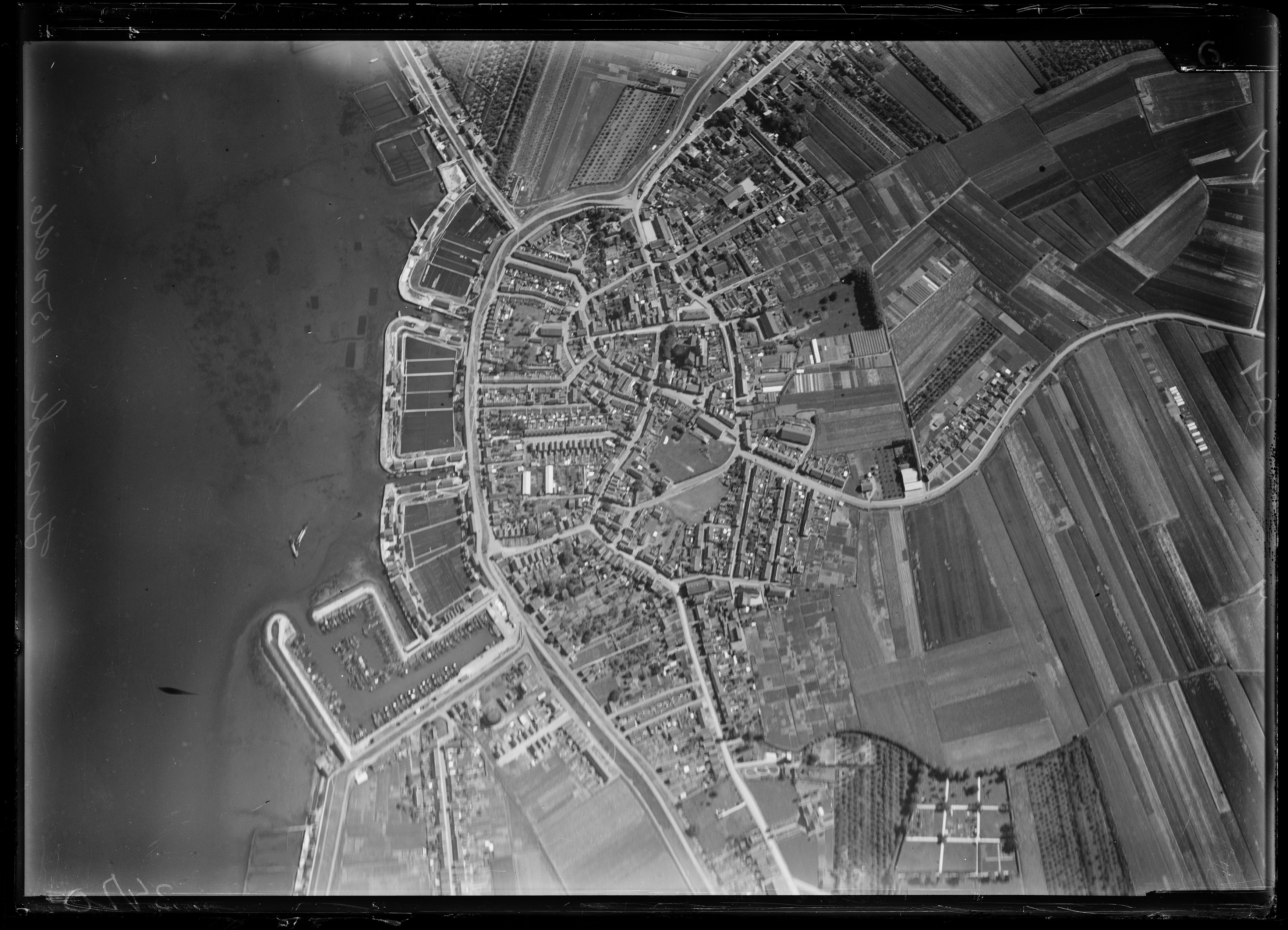 Aerial photograph of Yerseke, The Netherlands